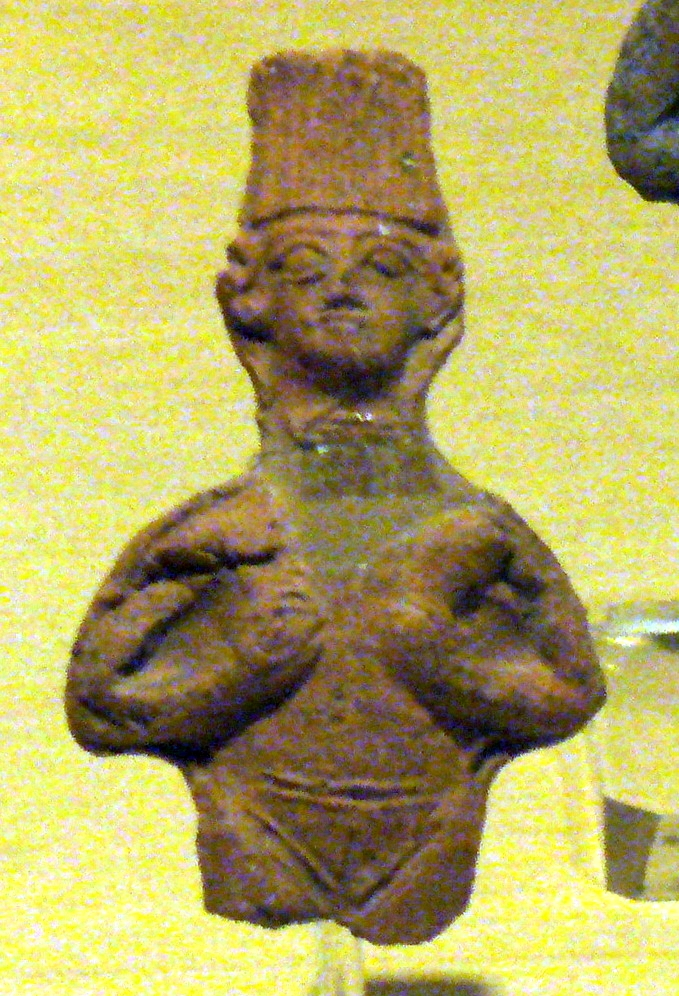 A terracotta statuette of Astarte from Syria (specifically Palmyra, if I'm not mistaken). Now in the Istanbul Archaeological Museum.